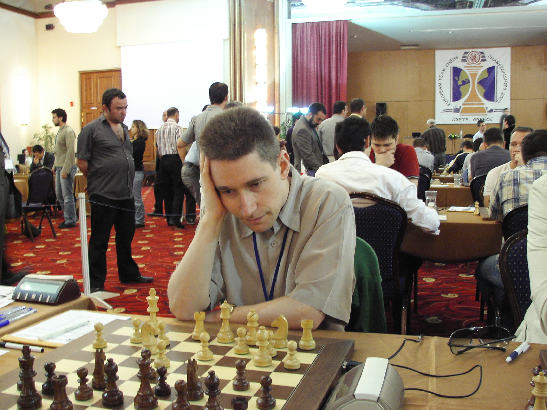 GM Michael Adams (England), Heraklion 2007